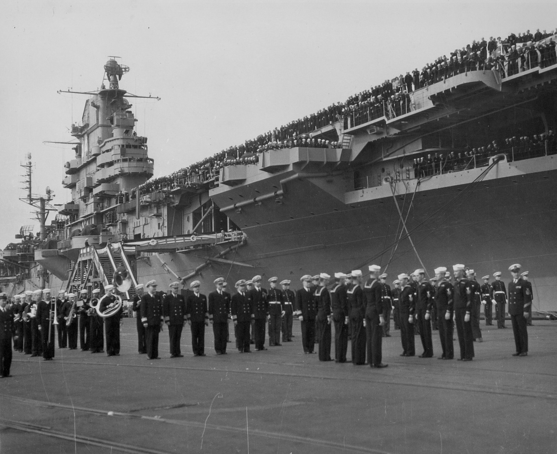 The ship's band and other personnel are gathered on the pier alongside the U.S. Navy aircraft carrier USS Oriskany (CV-34) to welcome dignitaries to the ship's commissioning ceremony at the Brooklyn Naval Shipyard, New York City (USA), 25 September 1950. Note that Oriskany´s mast is still on the quay.